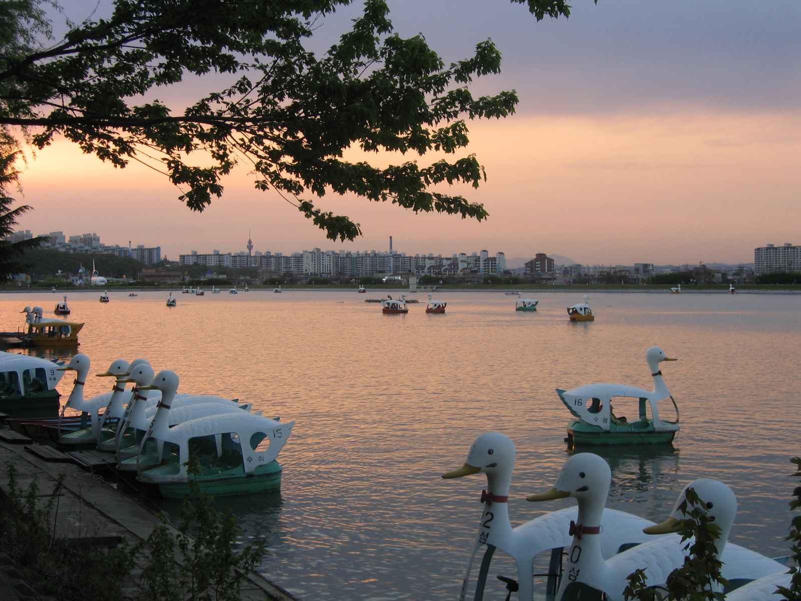 Paddle ducks on Suseong Lake, Suseong-gu, Daegu, South Korea at sunset April 24, 2005